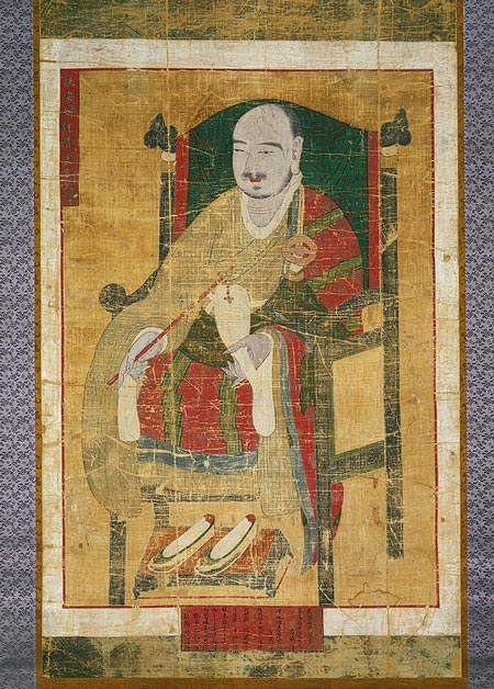 임진왜란 때의 의병활동으로 유명하신 스님이자, 한국 불교사에 뚜렷한 흔적을 남기신 분인 서산대사의 초상화 (청허당)Portrait of Seosan Daesa (Cheongheodang, 1520–1604), Chosôn dynasty (1392–1910), Hanging scroll, ink and color on silk; 152.1 x 77.8 cm, Metropolitan Museum of Art